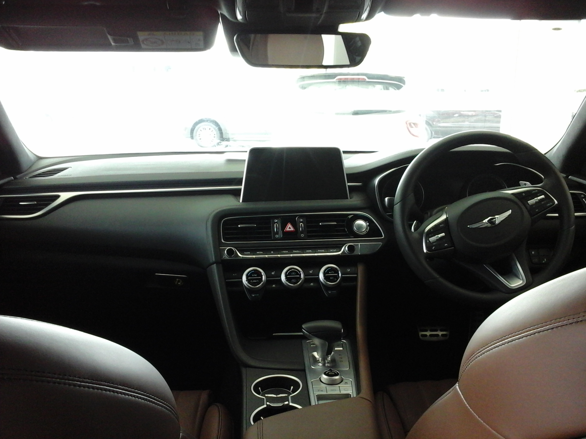 2018 Genesis (Hyundai) G70 sedan 2.0 gasoline variant, interior view geared as the right hand drive export version. Photographed in Setia Motors Sdn Bhd, Beribi Branch (headquarters), Brunei.